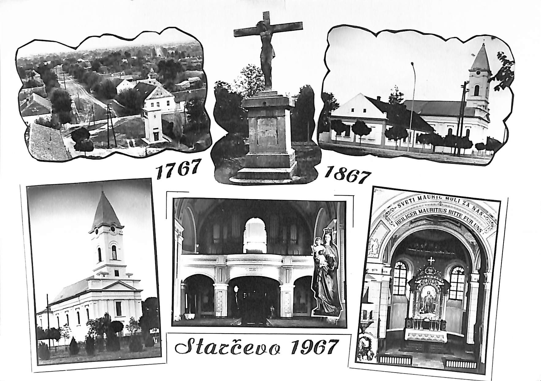 Starčevo on the postcard